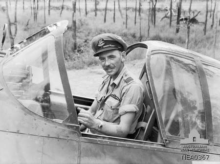 AWM caption : Mareeba, Qld. 1944-03-14. Informal portrait of 373 Wing Commander A. E. Cook of St Kilda, Vic, Commanding Officer of No. 5 (Tactical Reconnaissance) Squadron RAAF in the cockpit of a CAC Boomerang fighter aircraft.